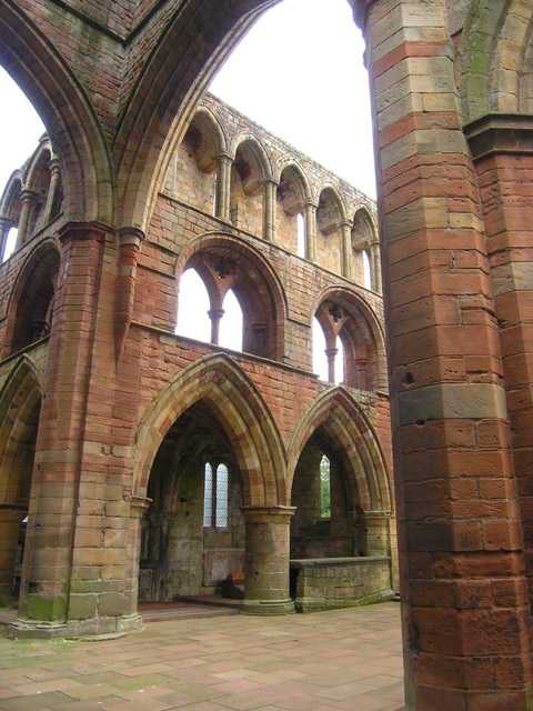 Lanercost Priory. Shermozle